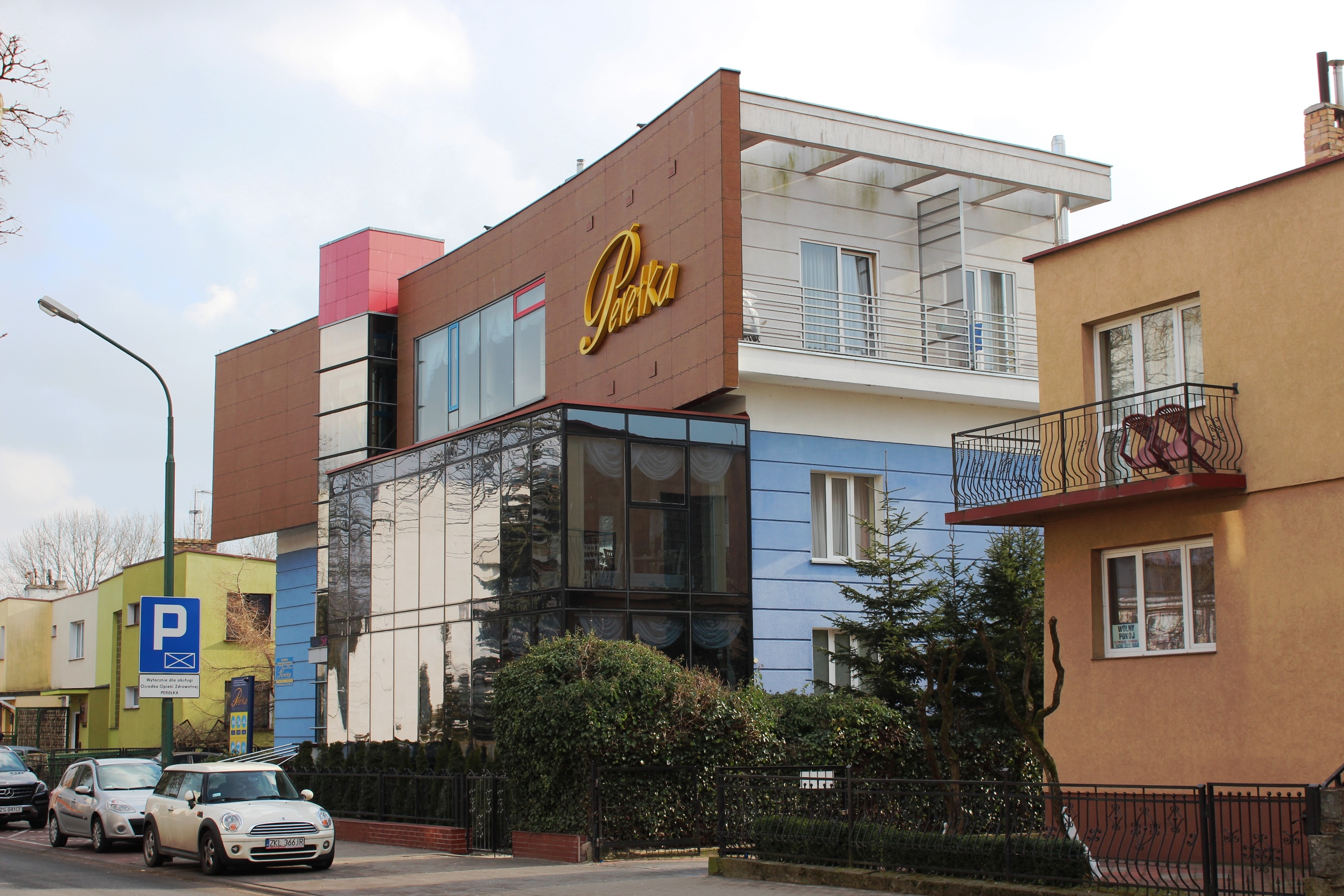 Perełka Sanatorium in Kołobrzeg